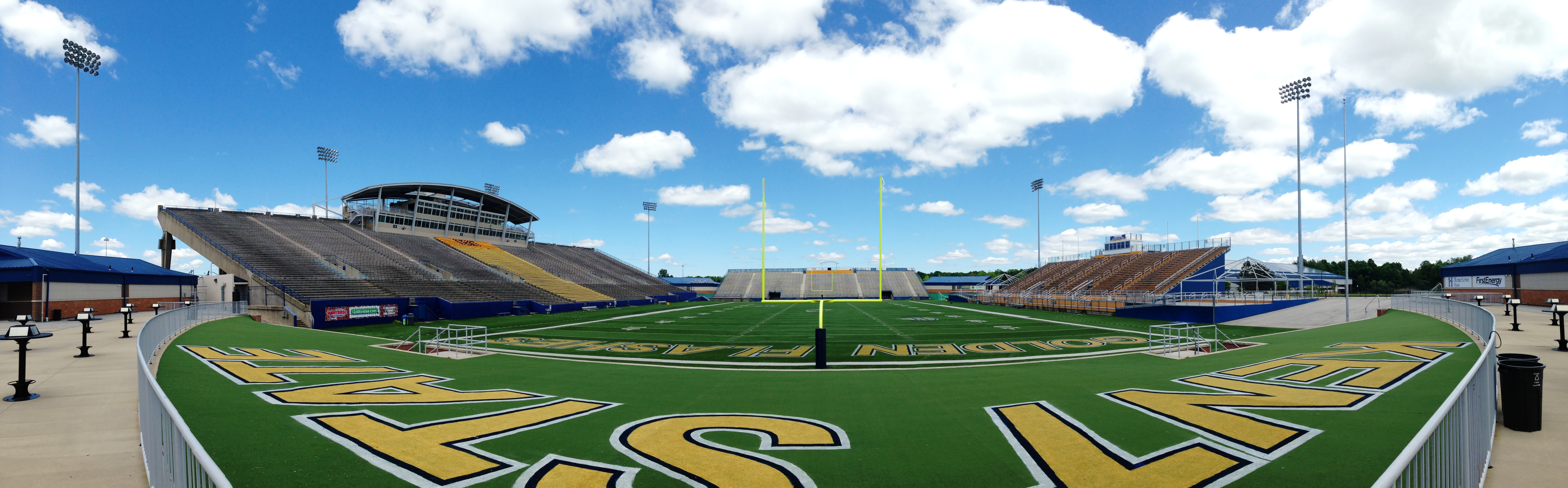 Panoramic view from the south end zone of Dix Stadium in Kent, Ohio, United States, on the campus of Kent State University.